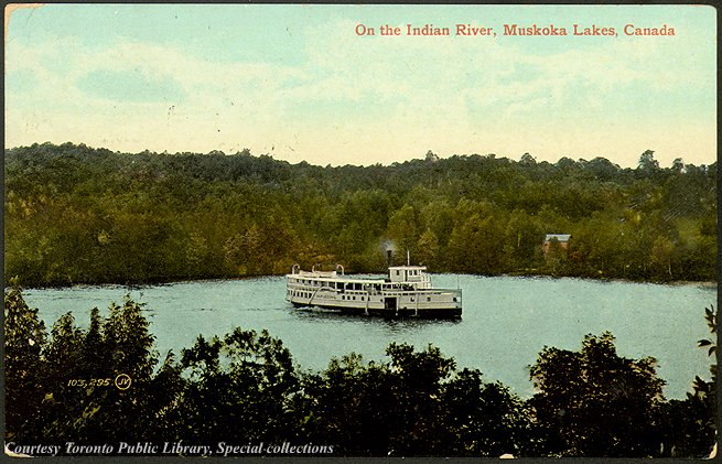 On Indian River, Muskoka Lakes, Canada Creator: Valentine & Sons' Publishing Co. Ltd Date: 1910 Identifier:PC-ON 1241 Format: Postcard Rights: Public domain Courtesy: Toronto Public Library You can order order a print or high-resolution copy. This image is available from the Toronto Public Library under the reference number PC-ON 1241This tag does not indicate the copyright status of the attached work. A normal copyright tag is still required. See Commons:Licensing. English | français | +/−